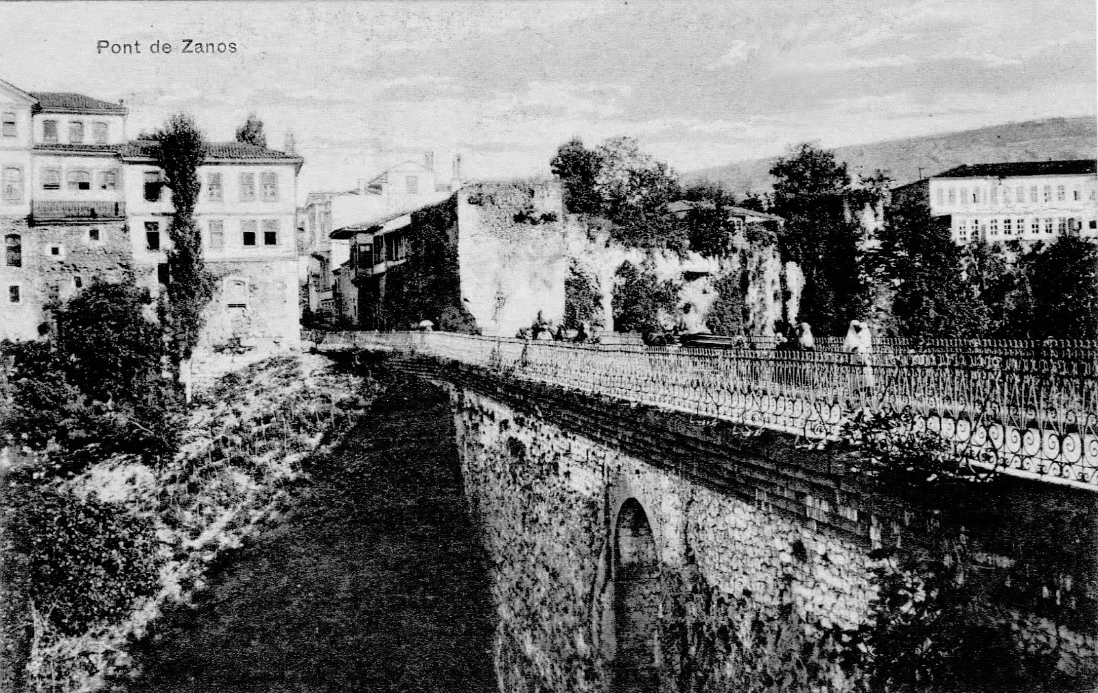 Postcard of Trebizond (Trabzon), Ottoman Empire.